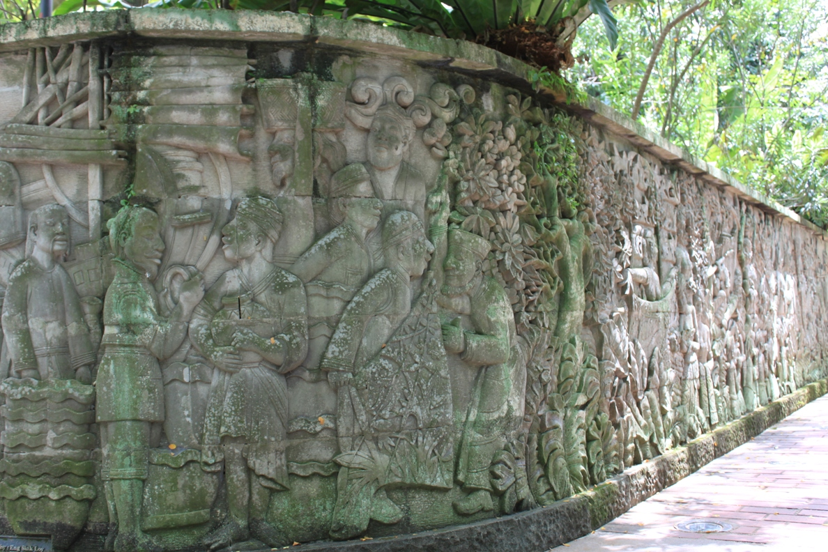 Part of a huge mural stretching along a pathway in Fort Canning Park, Singapore, which depicts activities that may have taken place in ancient Singapore.